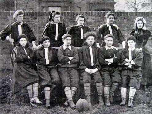 L'équipe de North London, le 23 mars 1895. Debout : Lily Lynn, Nettie Honeyball, Williams, Edwards, Ide. Assises : Compton, F. B. Fenn, Nellie Gilbert, P. Smith, Rosa Thiere, Biggs.